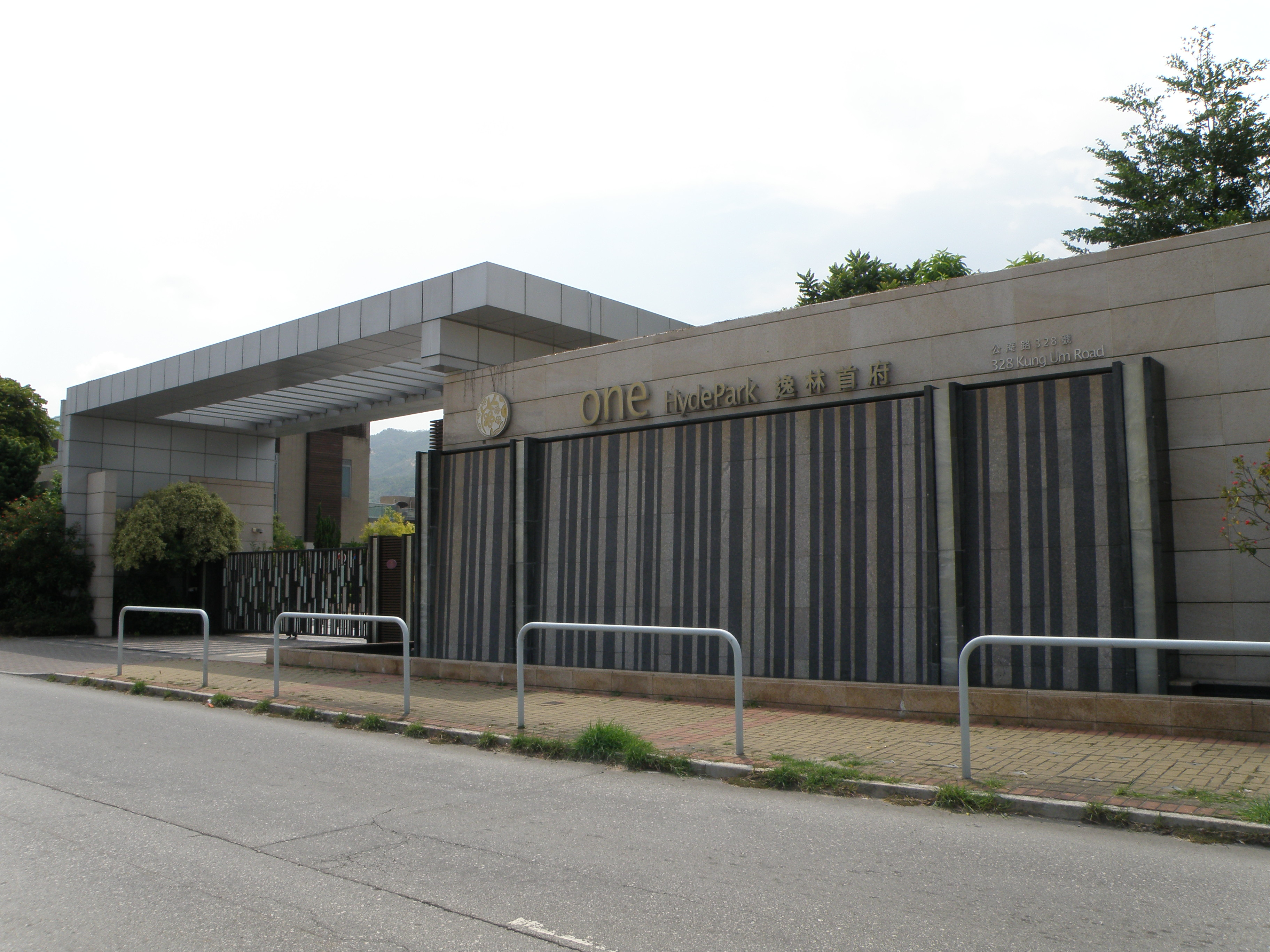 One Hyde Park entrance in Yuen Long, Hong Kong.